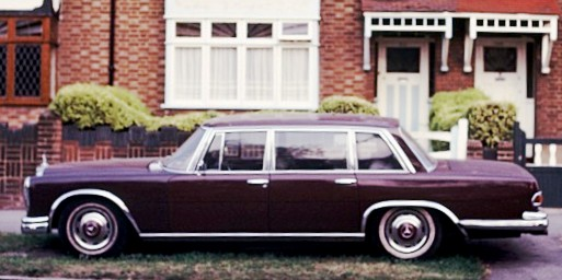 Mercedes-Benz 600 in profile in UK suburbia